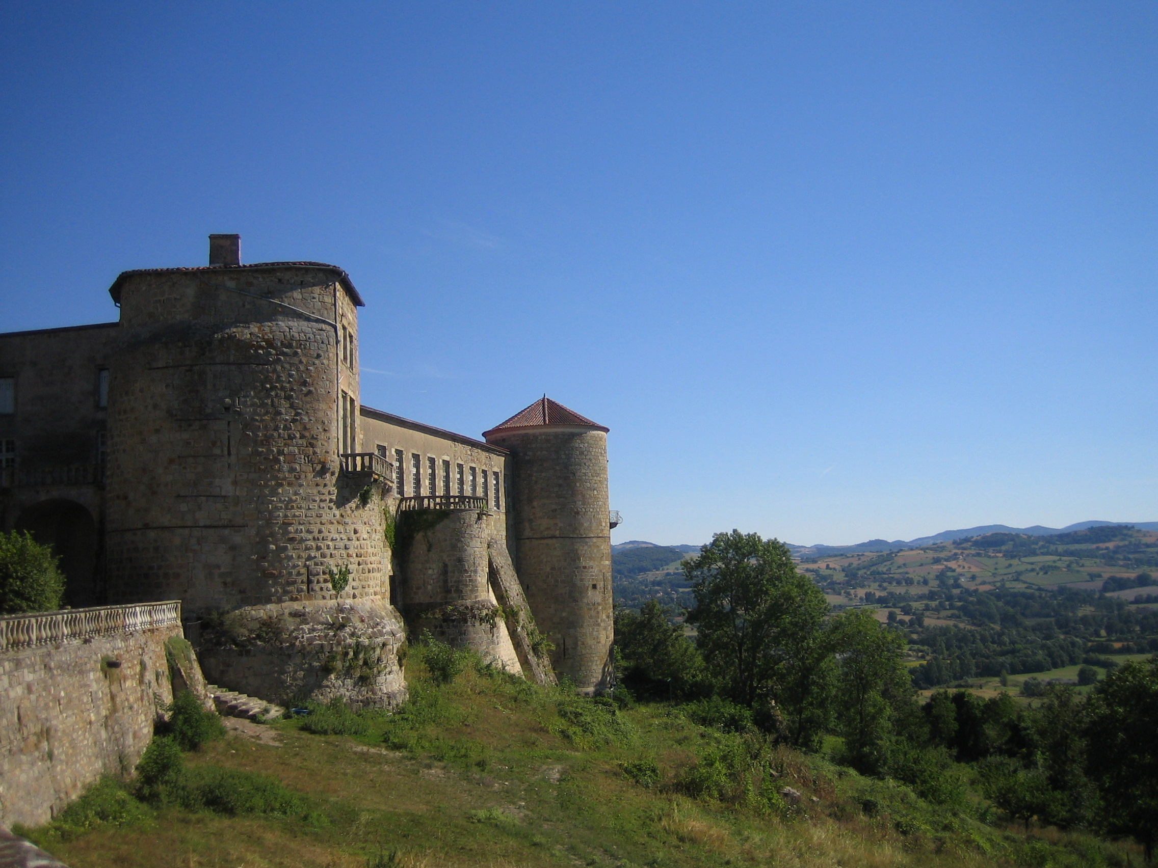 The château de Ravel, Puy-de-Dôme